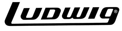 Logo of Ludwig, a drum manufacturer.